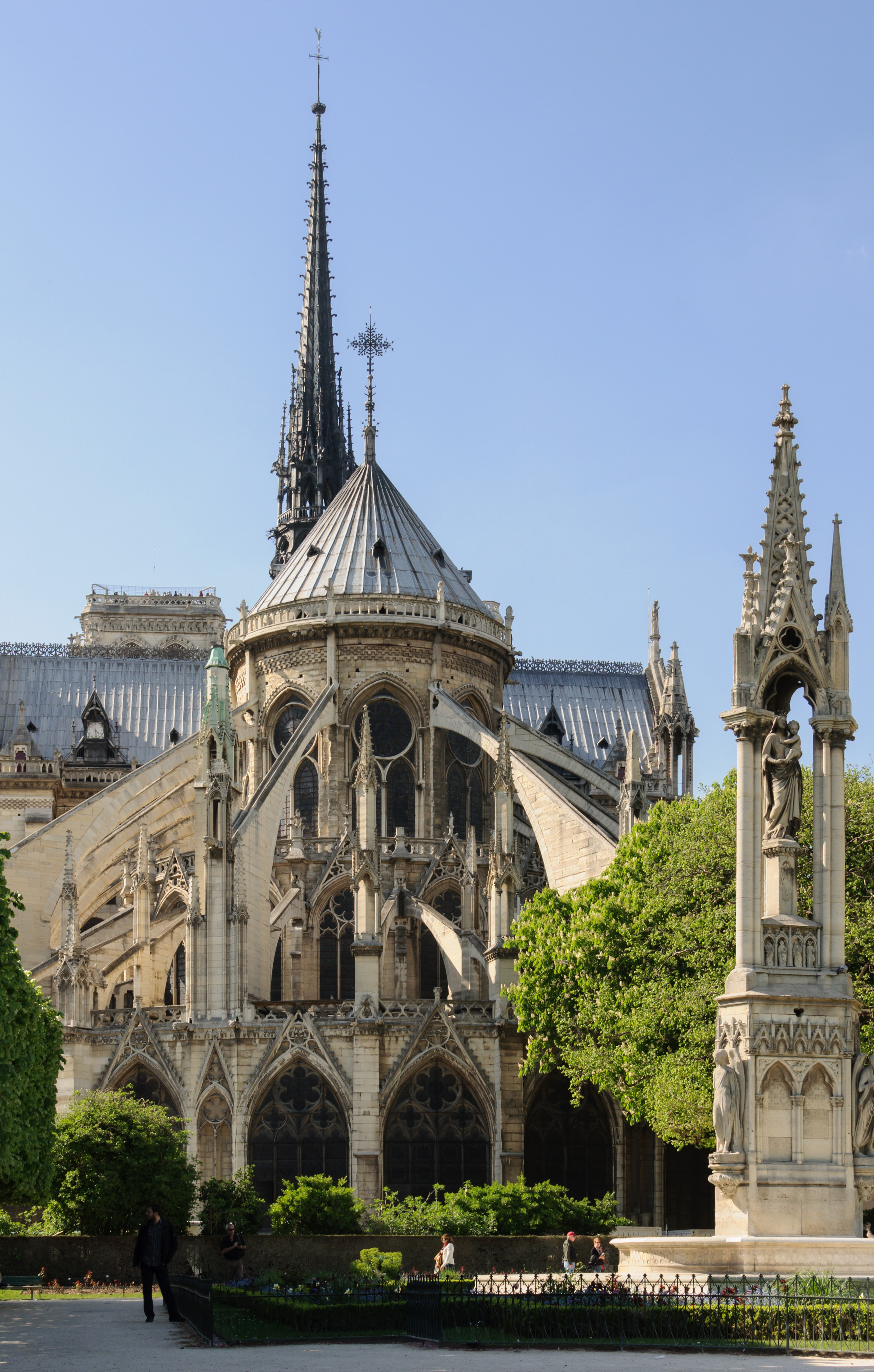 View of the chevet of Notre Dame de Paris, France